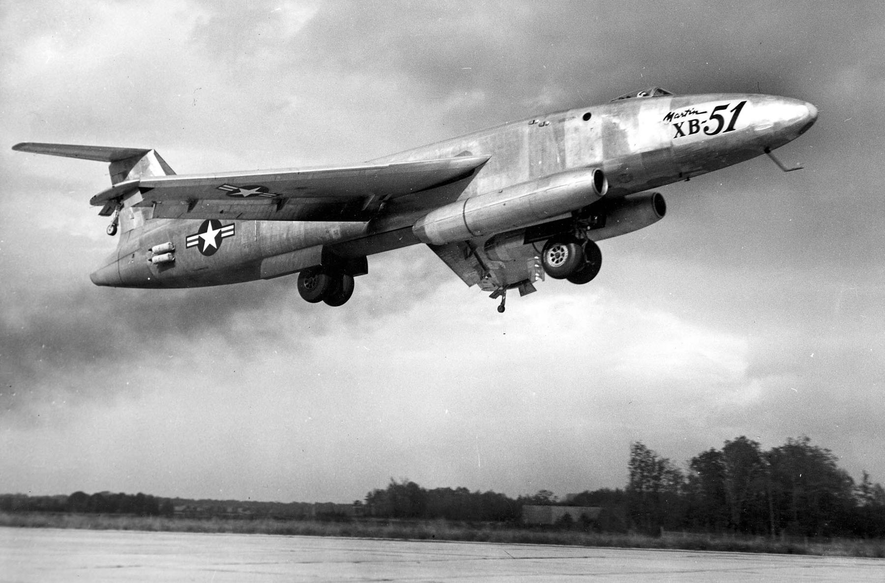 Martin XB-51 landing configuration